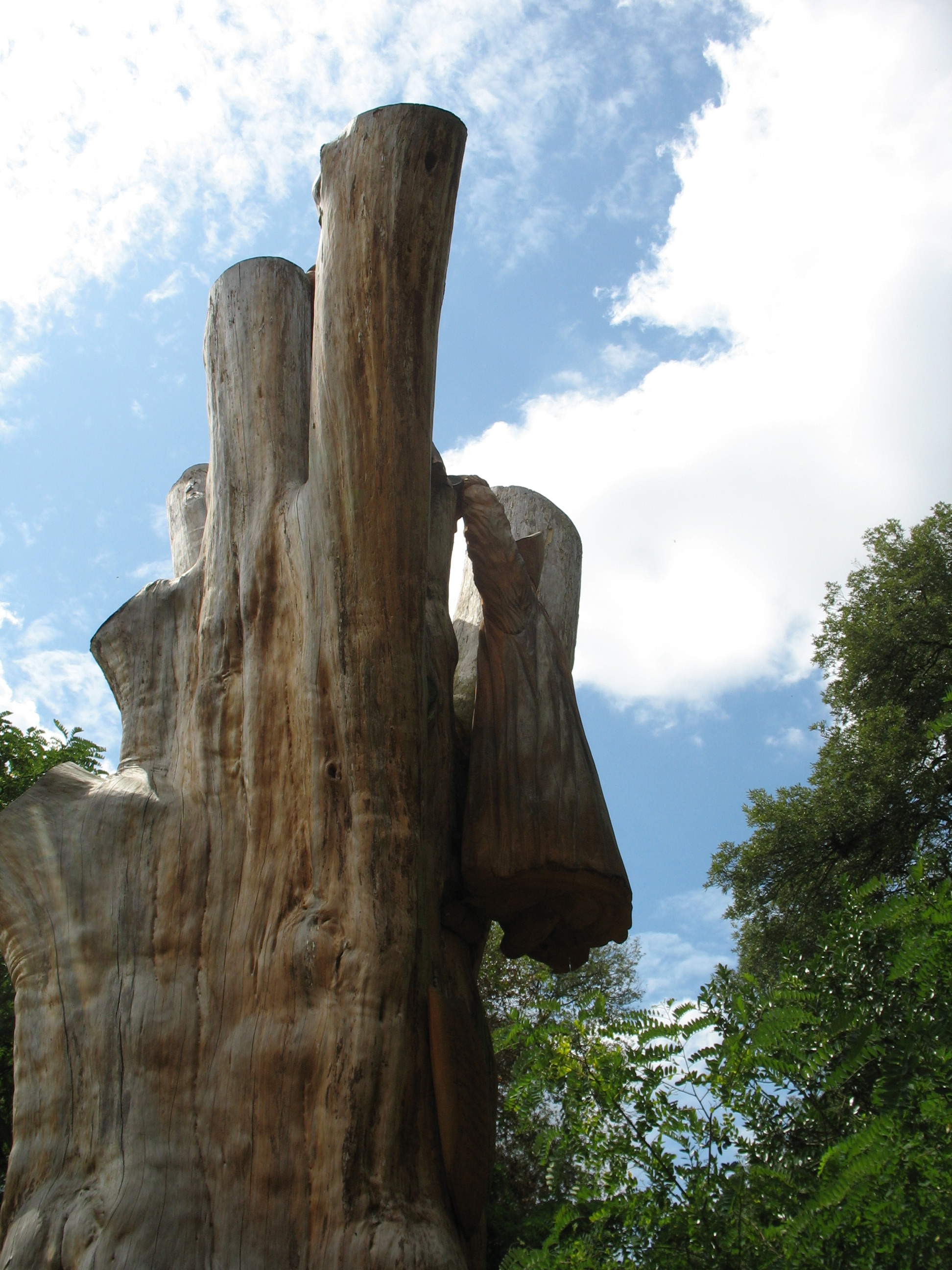 Wood sculpture by Andrew Frost (b. 1973)[1] in Fulham Palace gardens, which is open to the public,[2] showing Mandell Creighton climbing up the Bishops' Tree